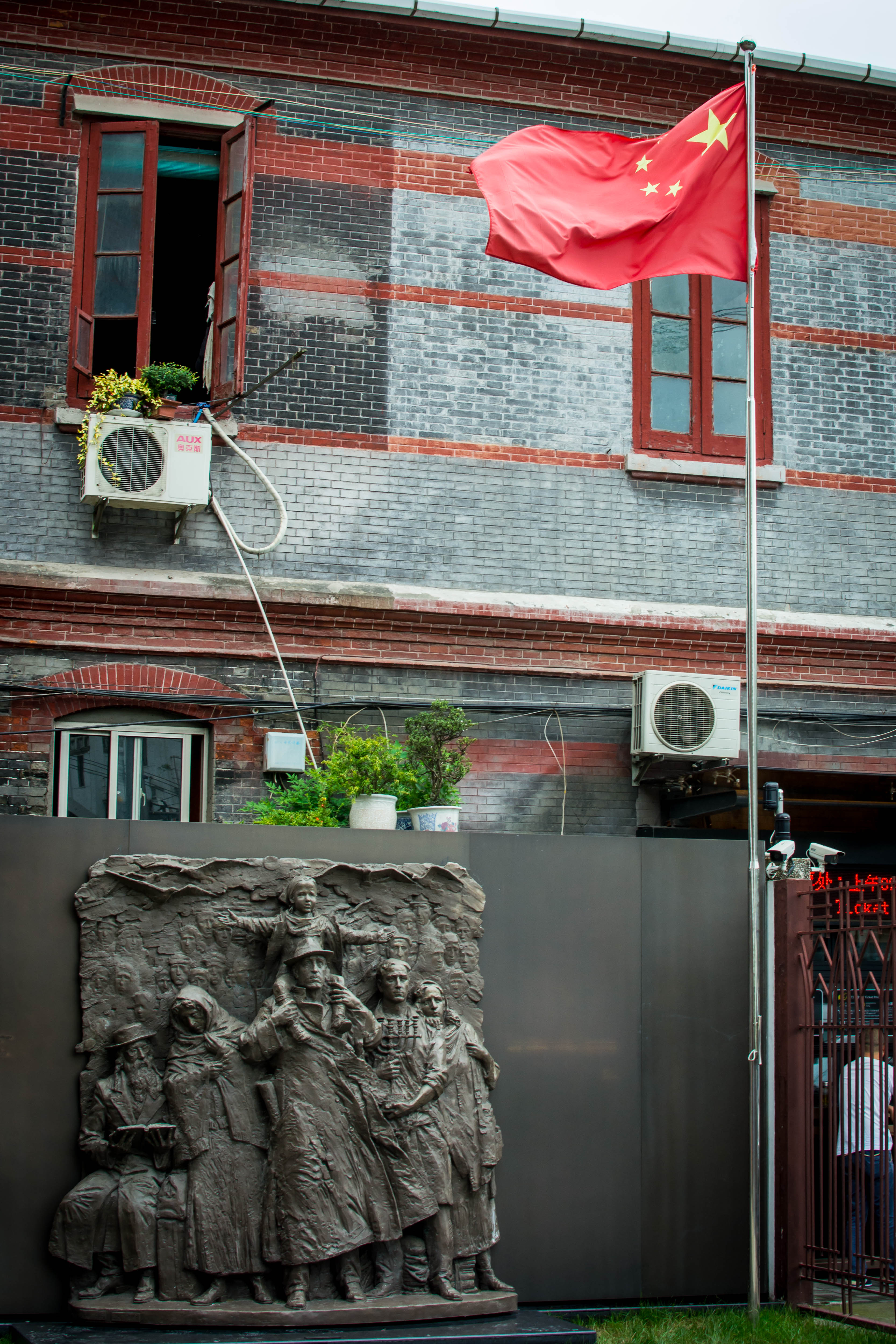 Monument at the Shanghai Jewish Refugees Museum, created by artist He Ning and shown with Chinese national flag at the entrance to the museum in June 2017.